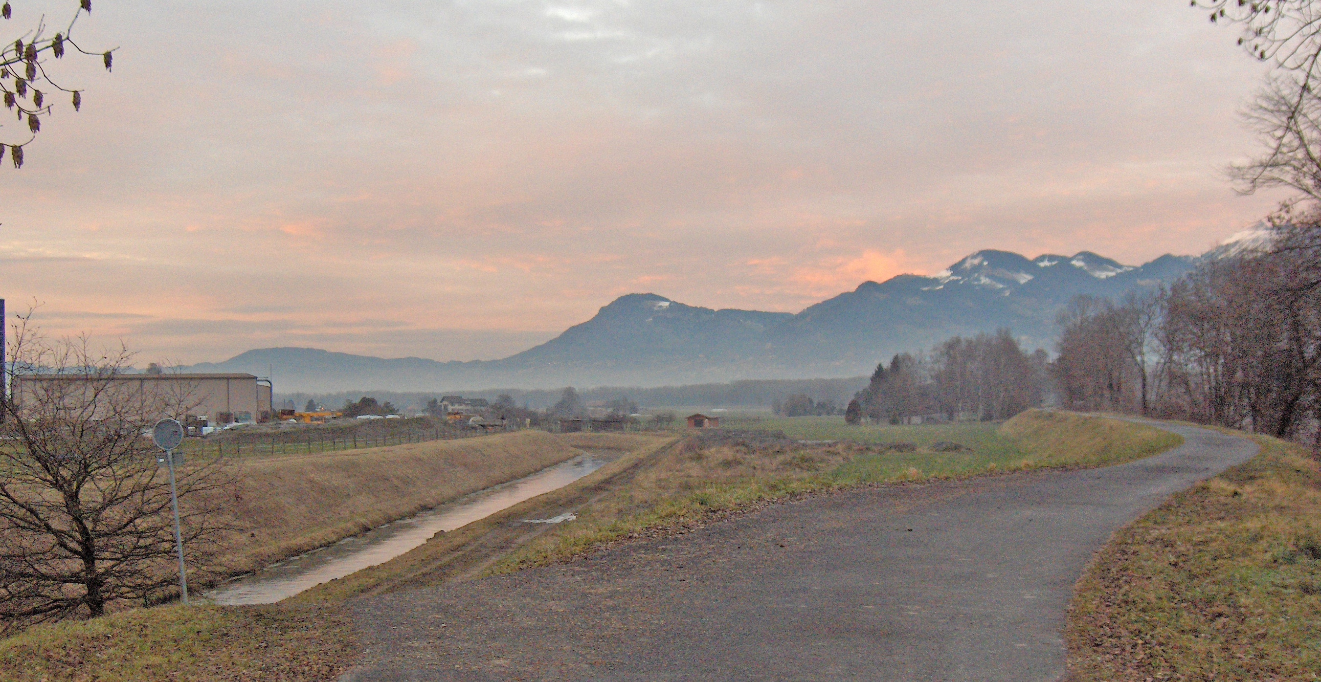 Canal Stockalper (on the left) as seen between Vouvry and Les Evouettes (Valais / Switzerland). It was dug between 1651 and 1659 to transport salt from Collombey to the Bouveret (on the shores of Lake Geneva). It is named after Kaspar Jodok von Stockalper, a rich swiss merchant of the 17th century.